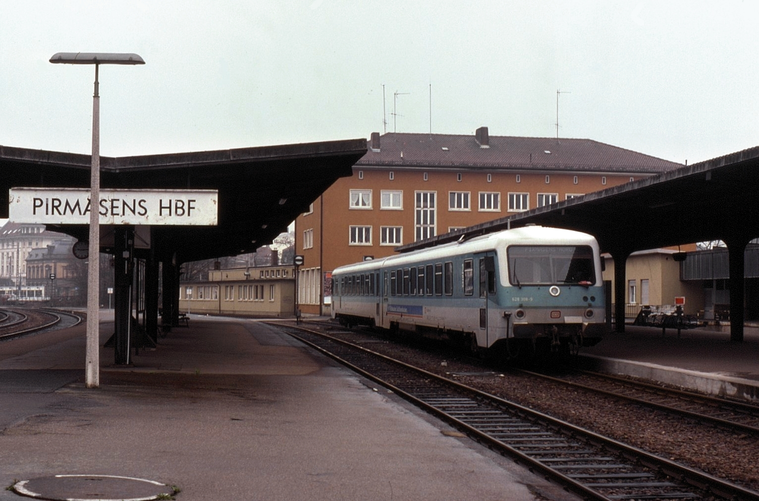 628.308 seen on 3 April 1993 on train RB4557, 09:30 Pirmasens Hbf to Pirmasens Nord.